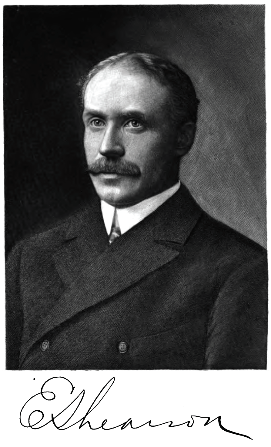 A portrait of Edward Shearson, founder of Shearson, Hammill & Company